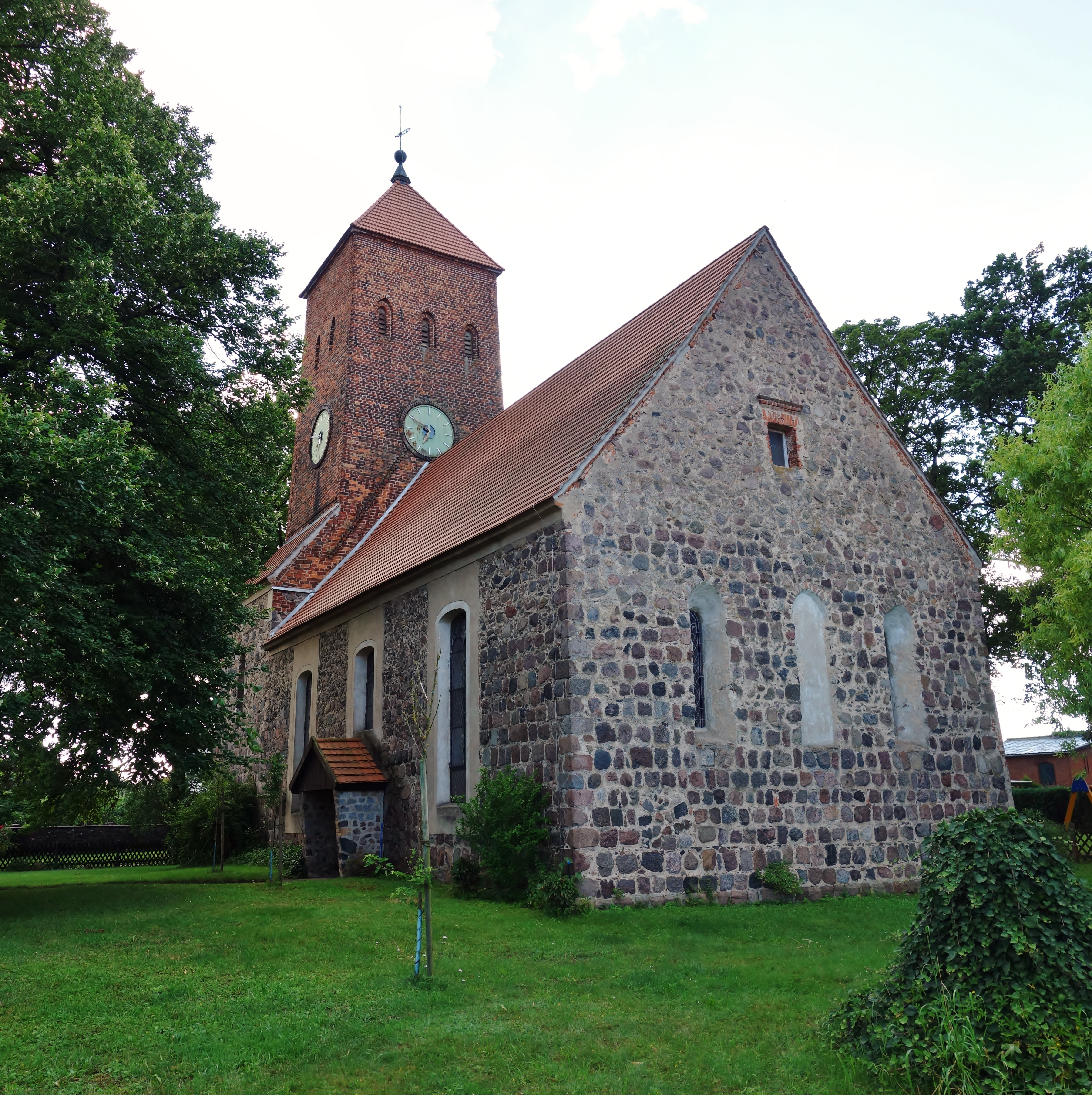 South-eastern view of church in Storkow, Templin municipality, Uckermark district, Brandenburg state, Germany